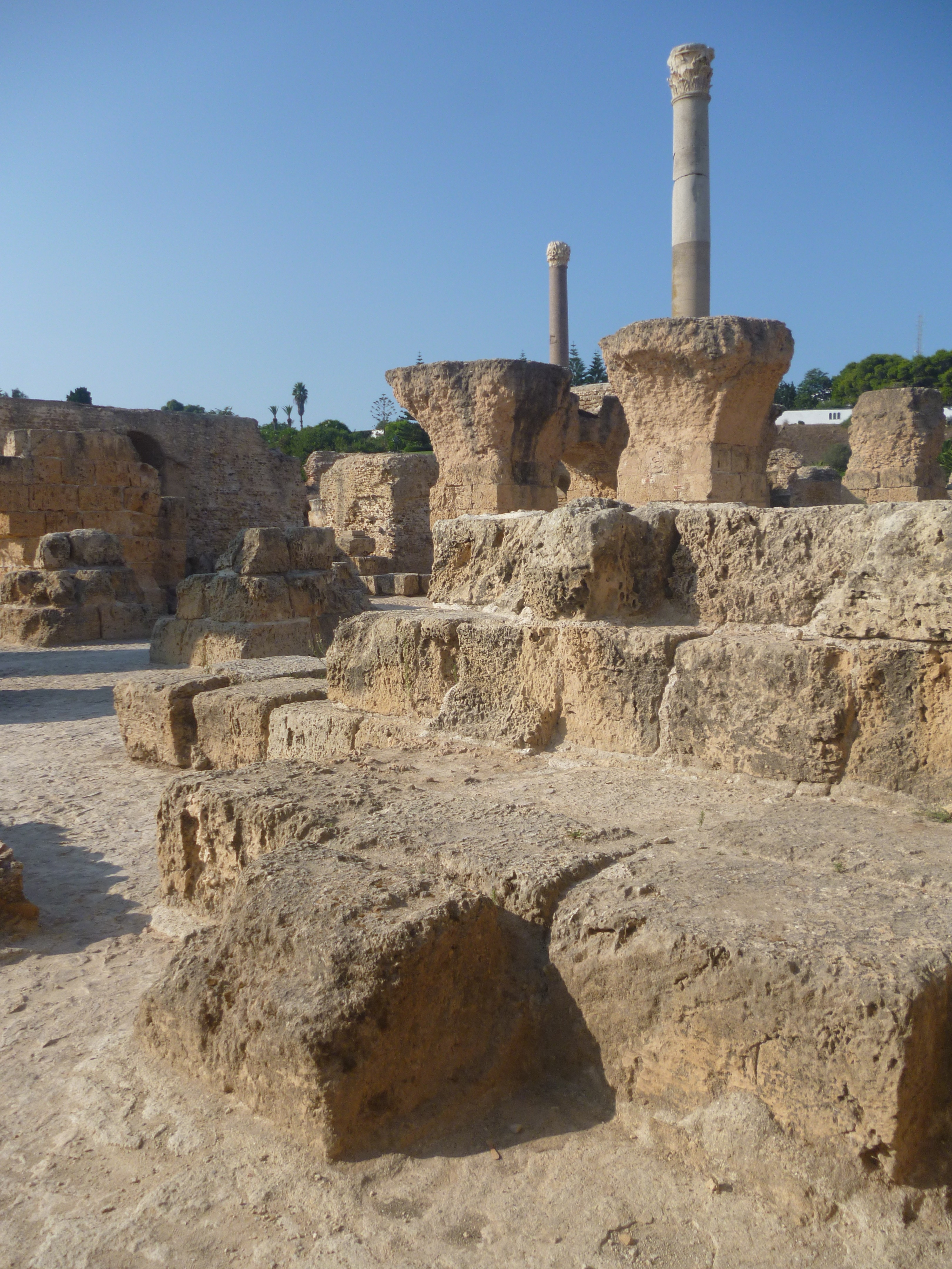 Archaeological Site of Carthage (Tunisia)